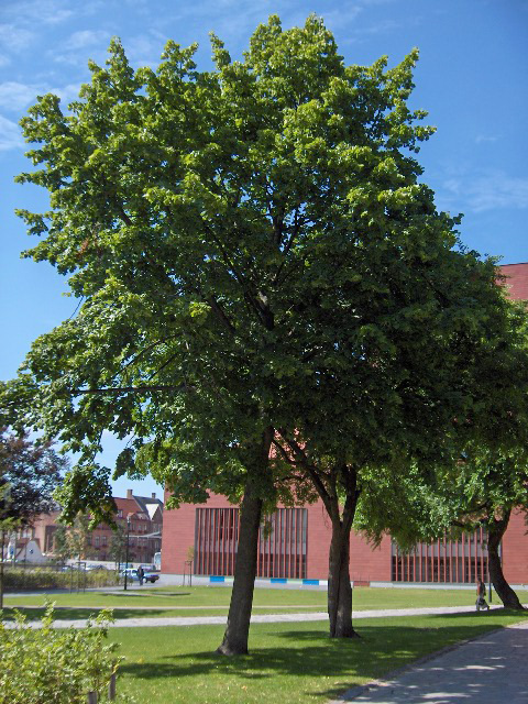 Hybrid Tilia x vulgaris Family Malvaceae